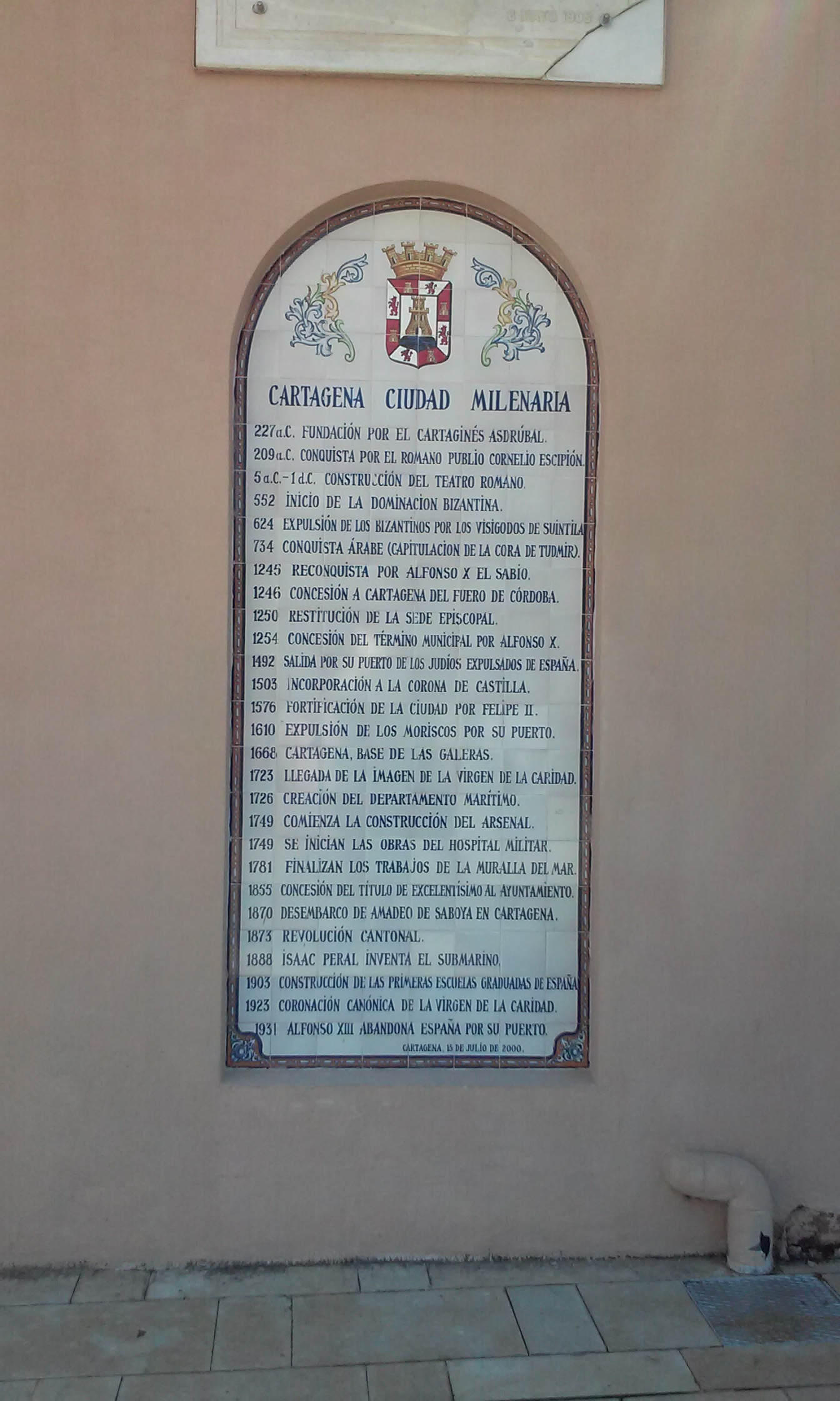 Ceramic plate (tiles) in the port of Cartagena (Spain), listing the major events in the history of the city. On the plate, inaugurated in 2000, reads: Cartagena, a millennial city227 BC Foundation by the Carthaginian Hasdrubal.209 BC Conquest by the Roman Publius Cornelius Scipio.5 BC–1 AD Construction of the Roman theatre.552 Beginning of the Byzantine rule.624 Expulsion of the Byzantines by Suintila's Visigoths.734 Arab conquest (capitulation of the Kurah of Tudmir).1245 Reconquest by Alfonso X the Wise.1246 Concession of the Fuero of Córdoba to Cartagena.1250 Restitution of the episcopal see.1254 Concession of the municipal term by Alfonso X.1492 Departure by its port of the Jews expelled from Spain.1503 Incorporation into the Crown of Castile.1576 Fortification of the city by Philip II.1610 Expulsion of the Moriscos from its port.1668 Cartagena, base of the galleys.1723 Arrival of the image of the Virgin of Charity.1726 Creation of the maritime department.1749 The construction of the Arsenal begins.1749 The Military Hospital works begin.1781 The works of the Muralla del Mar finished.1855 Concession of the title of Excellency to the City Council.1870 Landing of Amadeo of Savoy in Cartagena.1873 Cantonal Revolution.1888 Isaac Peral invents the submarine.1903 Construction of the first Graduate Schools of Spain.1923 Canonical coronation of the Virgin of Charity.1931 Alfonso XIII leaves Spain from its harbor.Cartagena, July 15, 2000.